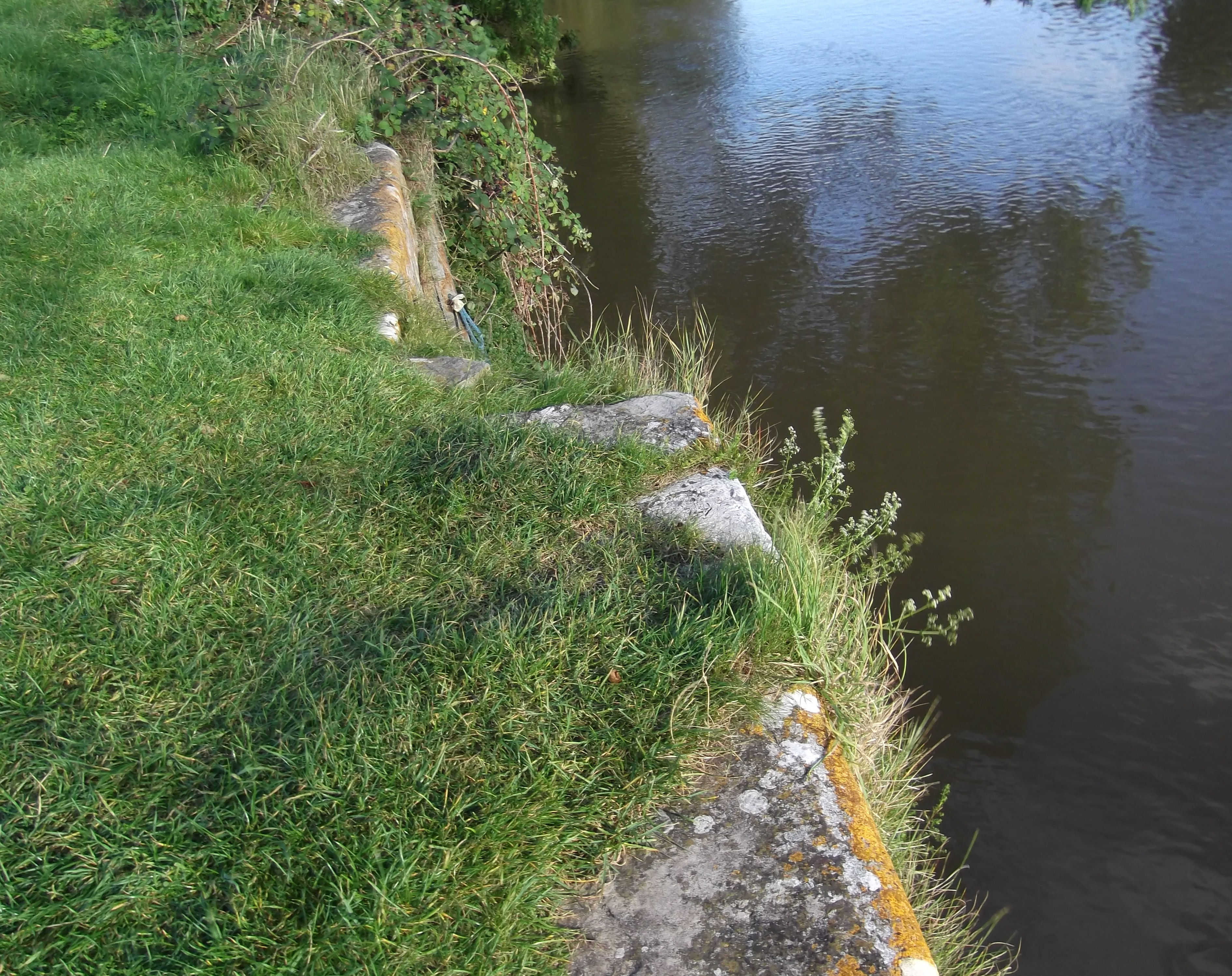 The remaining structure of the Keynsham Wharf of the Avon & Gloucestershire Railway, England